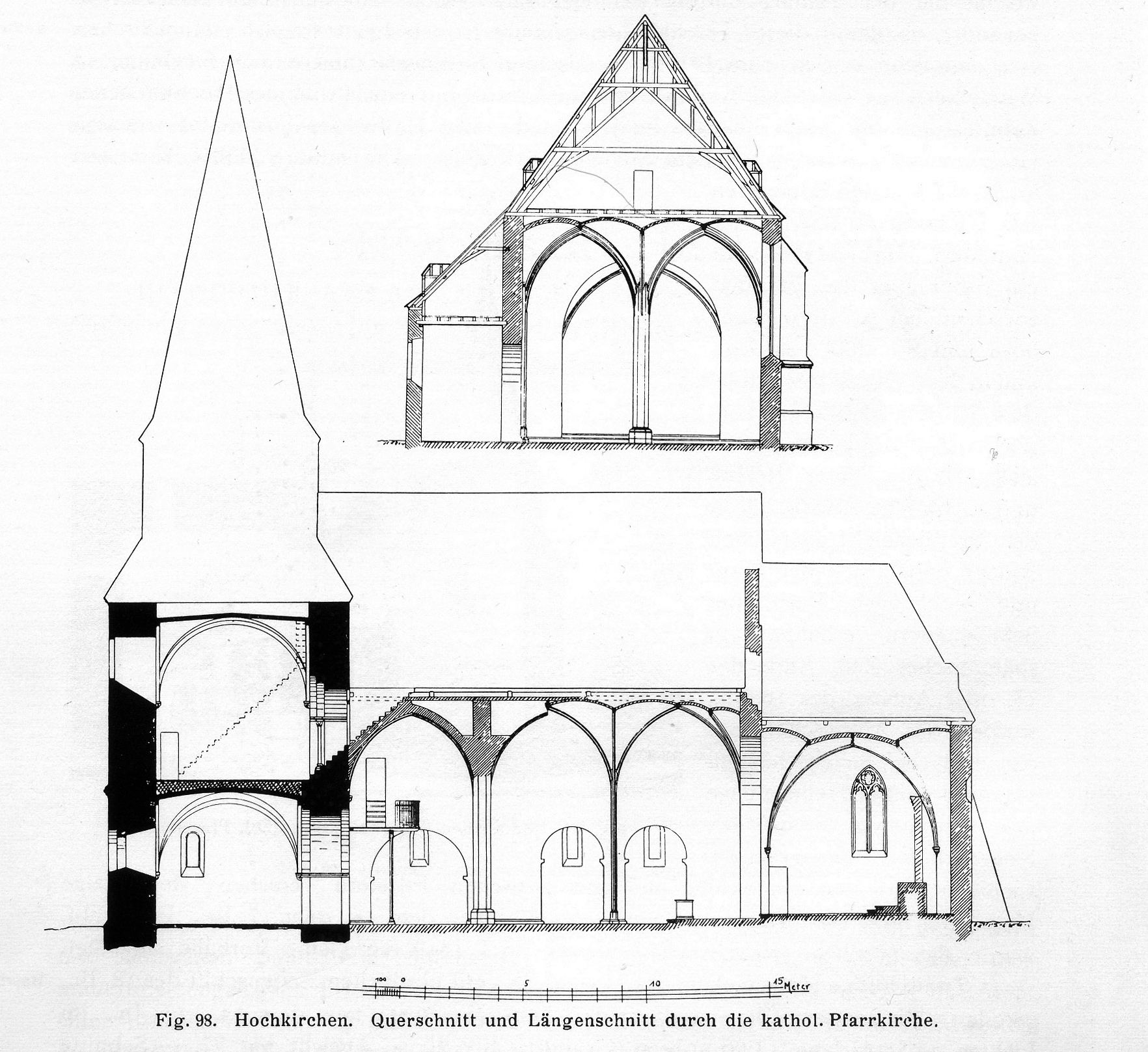 Medieval church St. Viktor, Hochkirchen, a quarter of Nörvenich, Germany